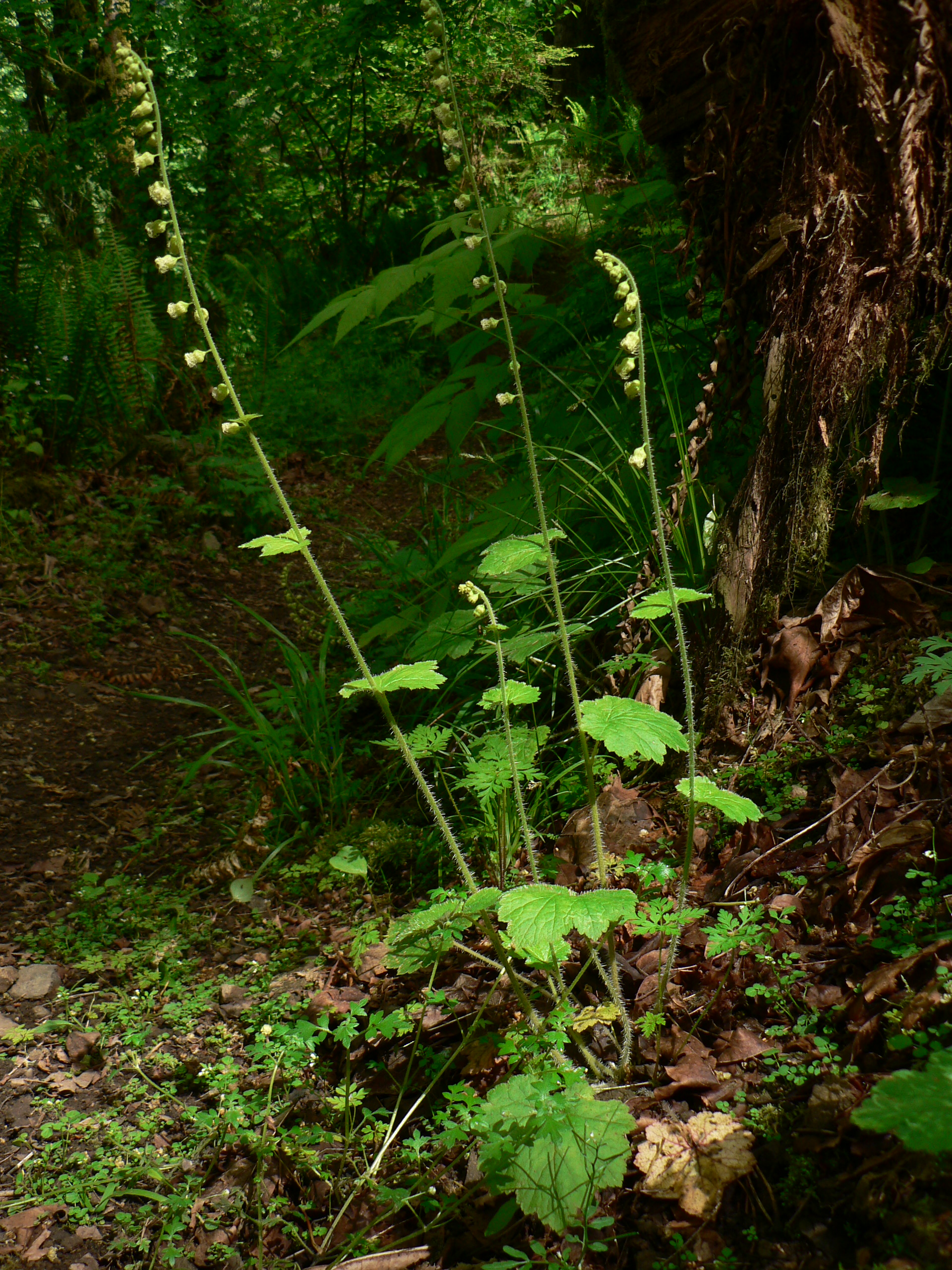 Big-flower Tellima, Fringecup